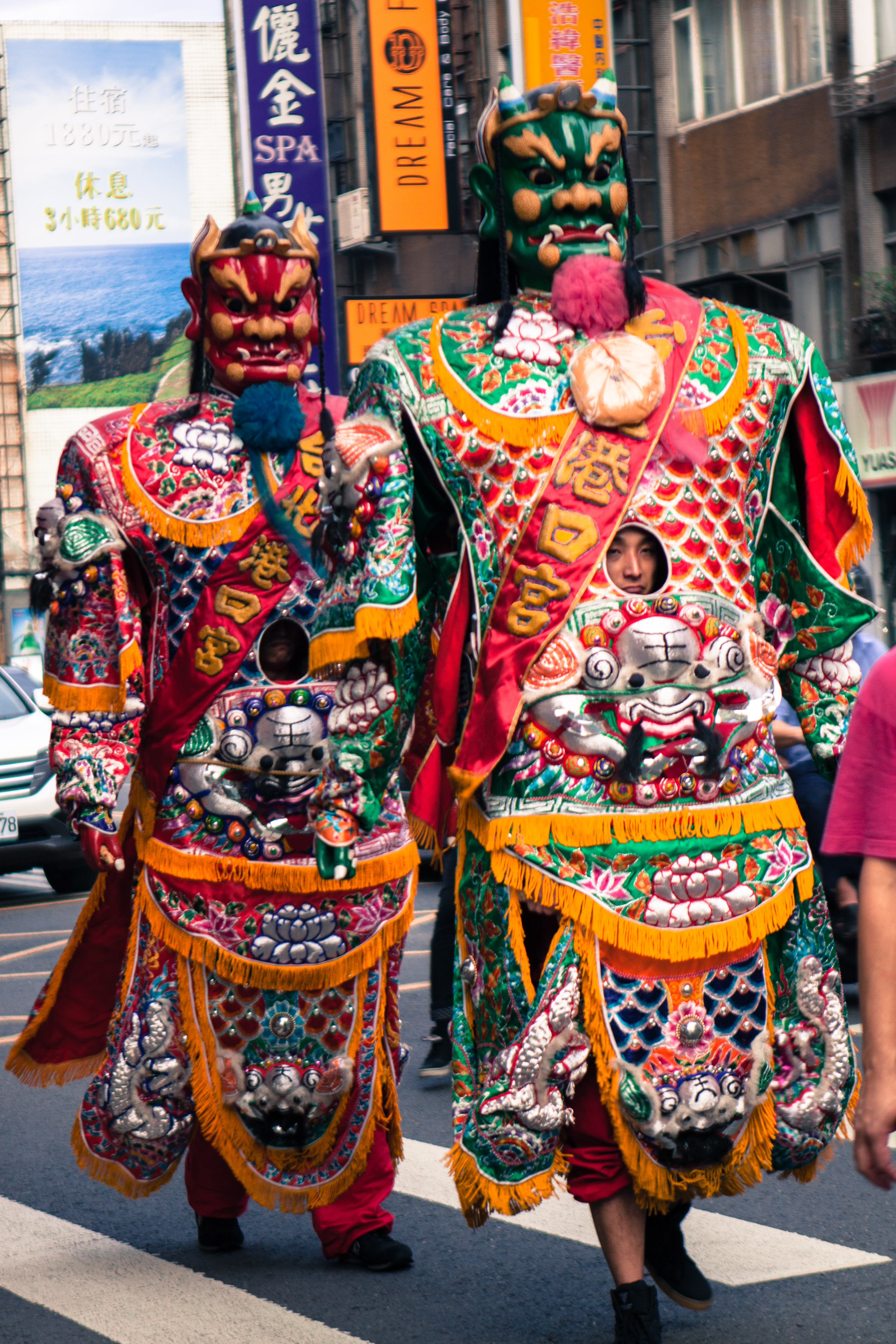 Deity face costume masks Buddhism temple festival Taiwan 2014